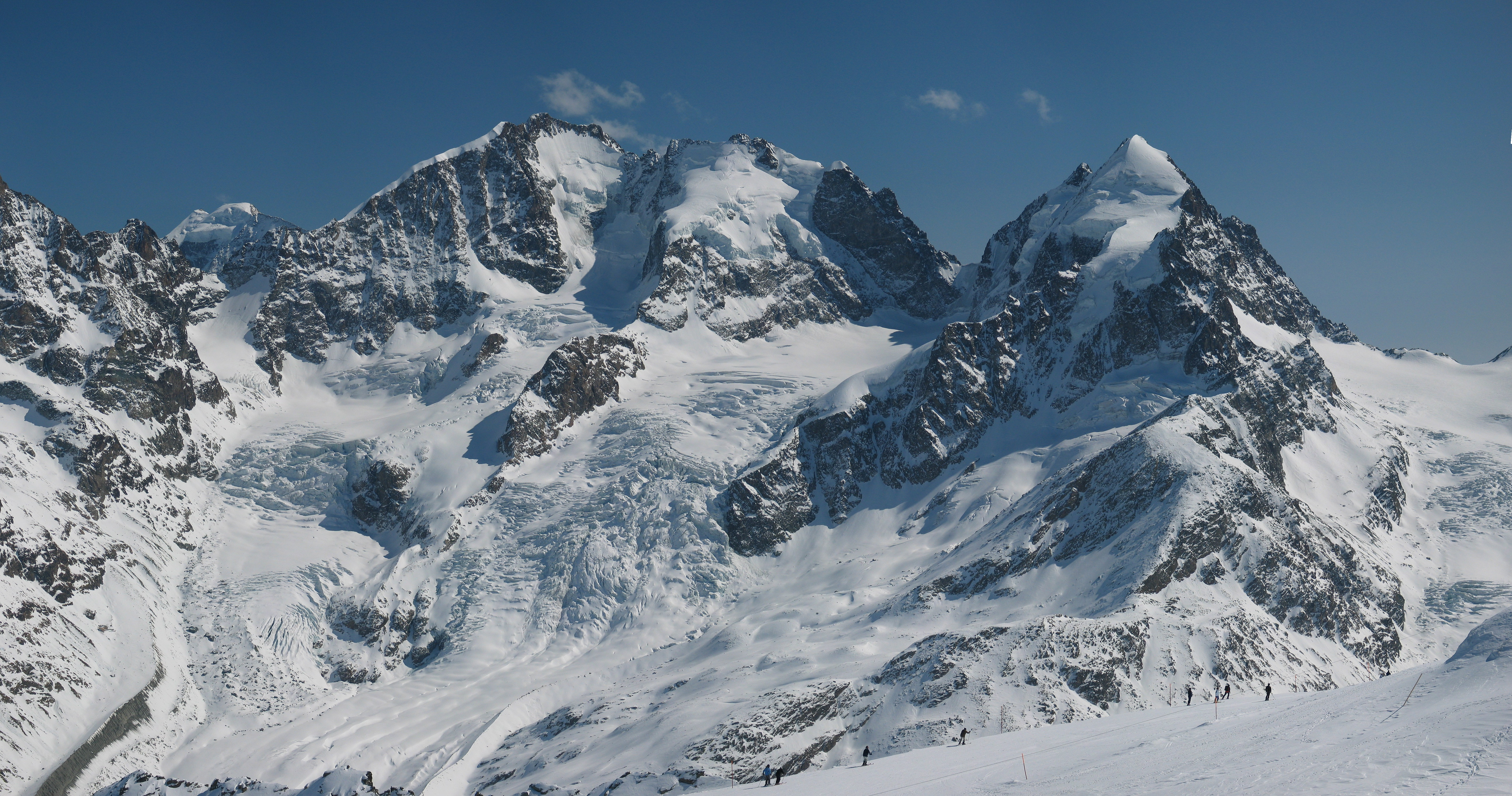 Tschierva glacier as seen from Piz Corvatsch. The high peak dominating the center left of the image is Piz Bernina decorated with the Biancograt a distinct ice ridge. Piz Bernina is the only mountain exceeding 4000m in Engadin. The peak on the right is Piz Roseg. The Tschierva hut is visible above the left glacier moraine. Other versions: edited version